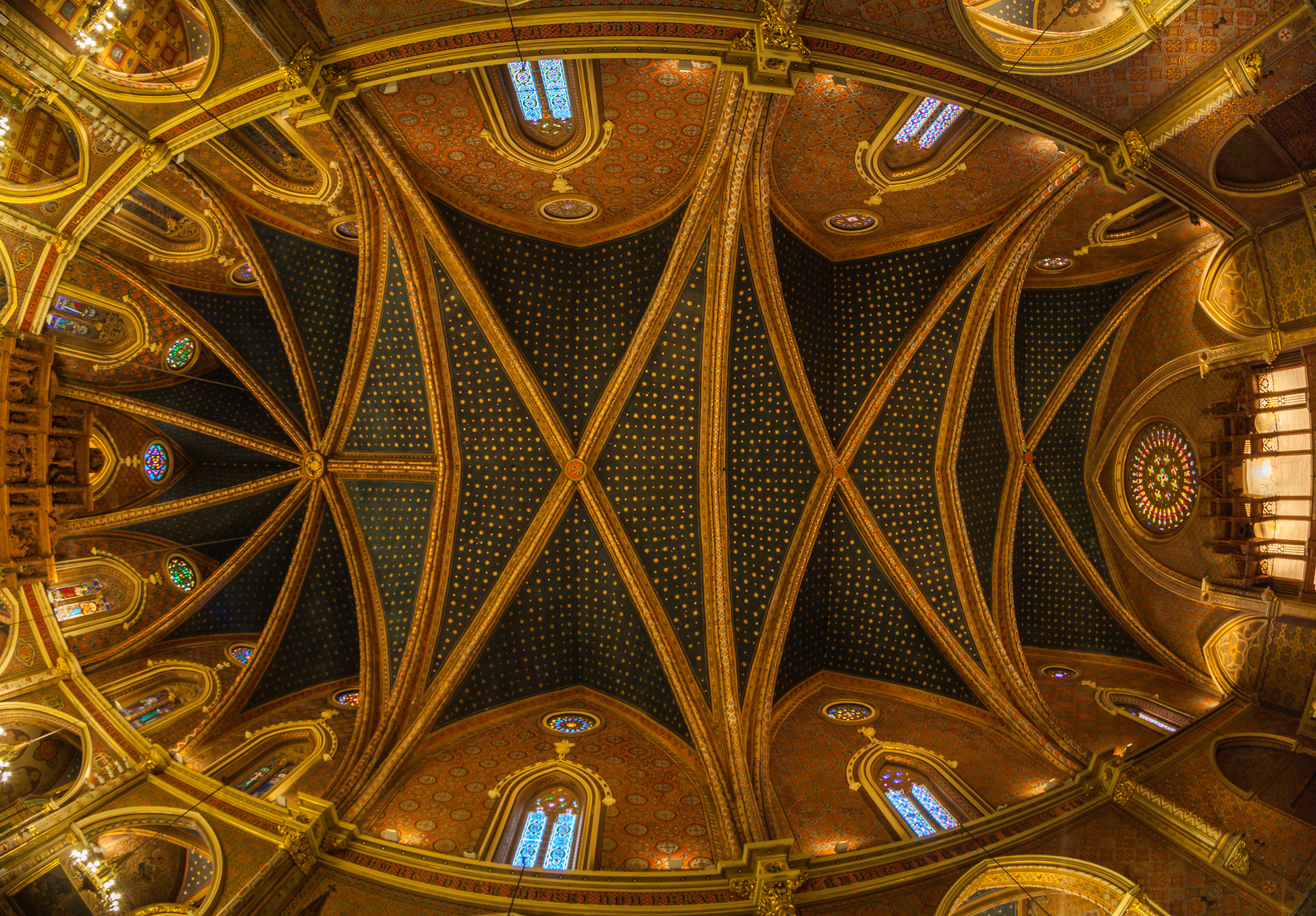 St Peter's church, Teruel, Spain